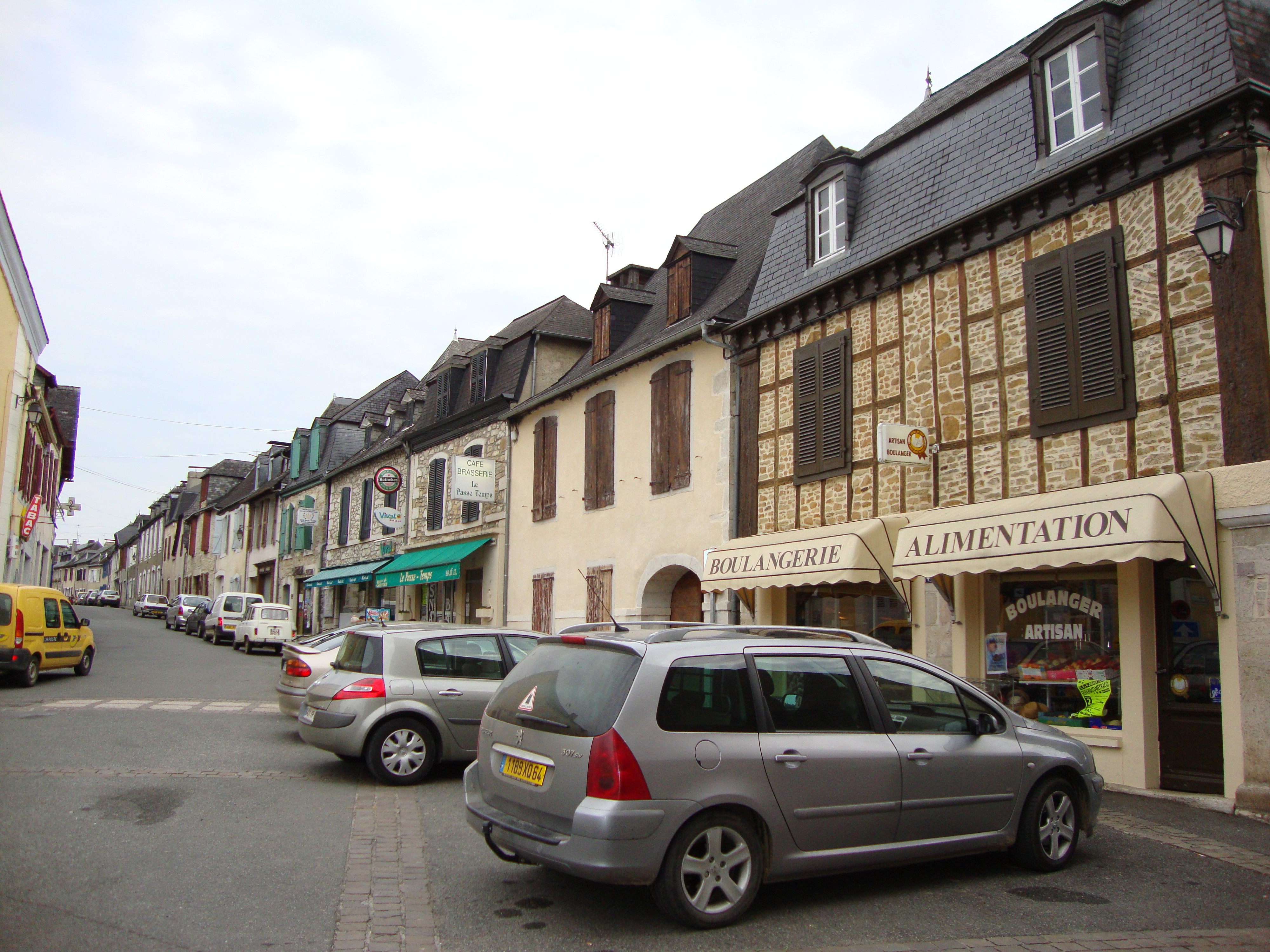 Lasseube (Pyr-Atl, Fr) main street with shops